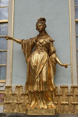 Statue of a castanets dancer on Chinese House in Sanssouci Park, Potsdam, Germany